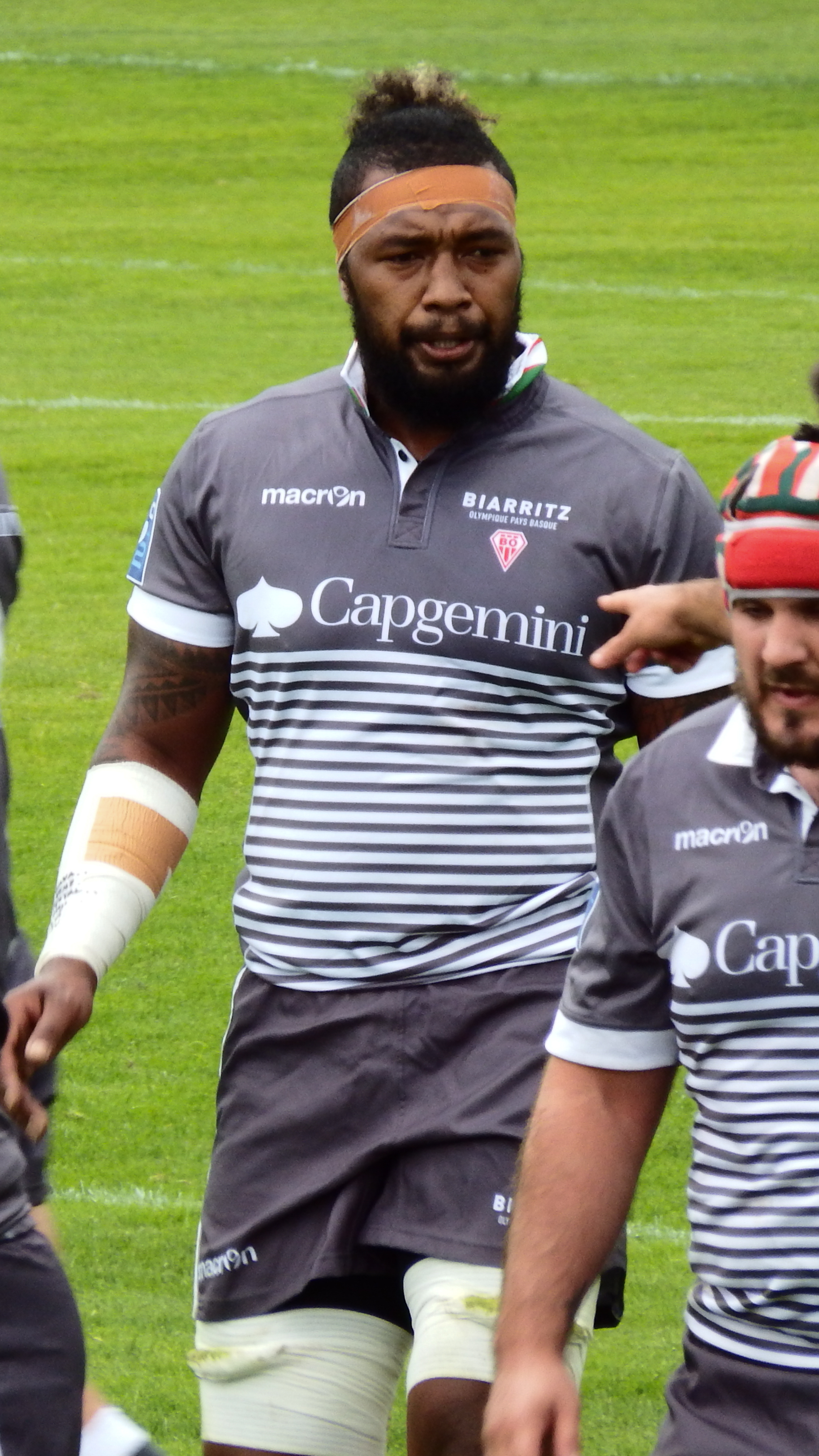 2016–17 Rugby Pro D2 season — 23 October 2016, stade Maurice-Boyau. Match between: US Dax — Biarritz Olympique